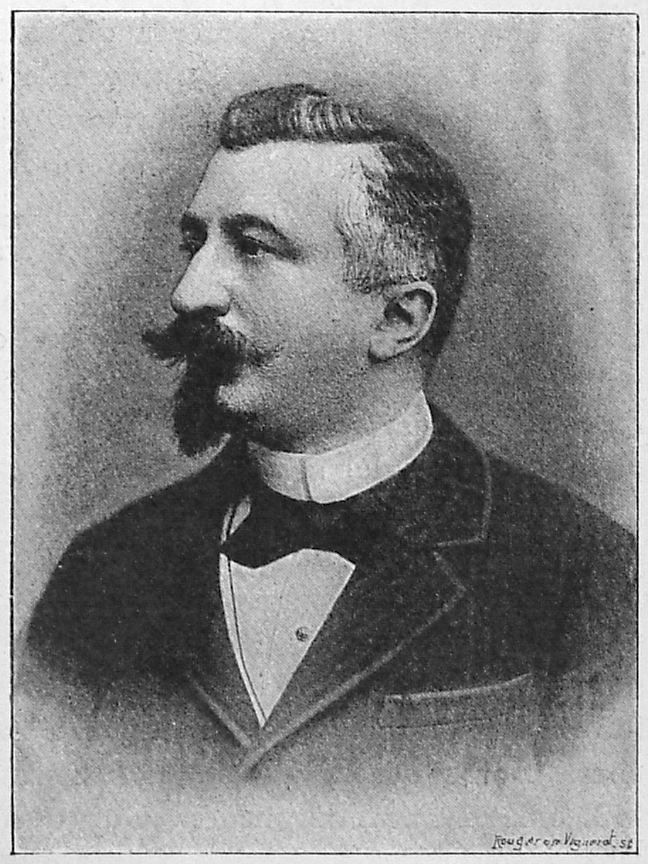 Laurent Tailhade